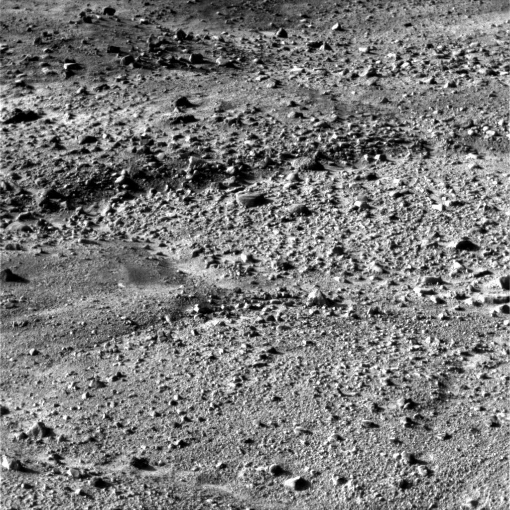 One of the first surface picture from Phoenix. Original description: The Surface Stereo Imager Right on NASA's Phoenix Mars Lander acquired this image at 17:11:32 local solar time at the Phoenix site on the mission's Martian day, or Sol, 0. The camera pointing was elevation -14.1193 [deg] and azimuth 343.312 [deg] The Phoenix Mission is led by the University of Arizona, Tucson, on behalf of NASA. Project management of the mission is by NASA's Jet Propulsion Laboratory, Pasadena, Calif. Spacecraft development is by Lockheed Martin Space Systems, Denver.